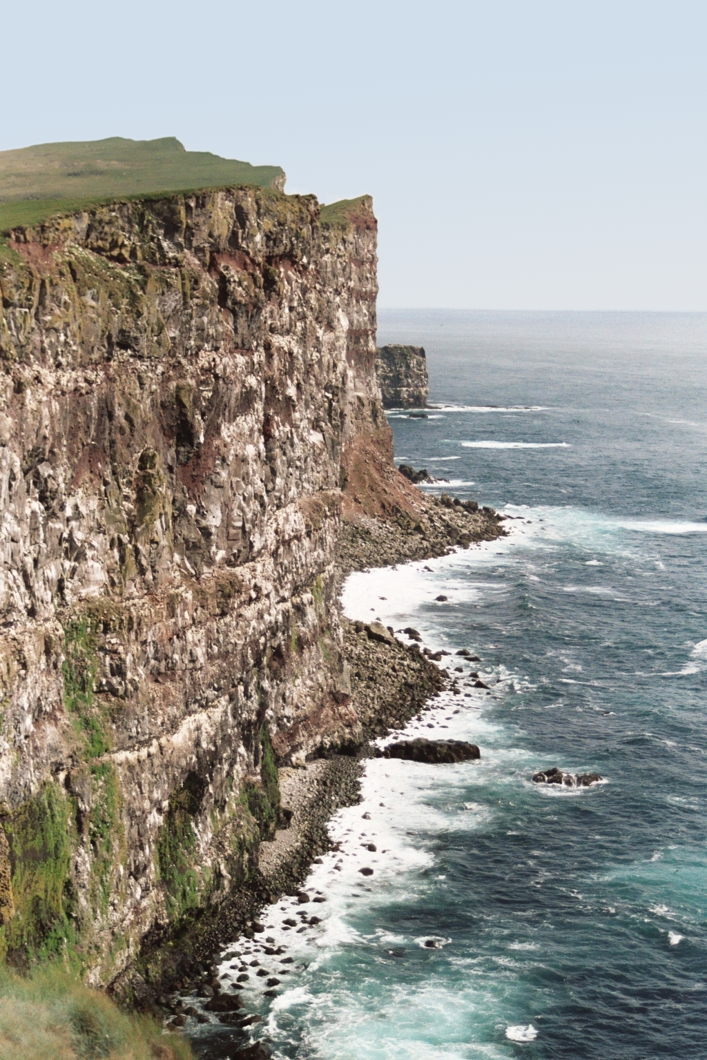 Látrabjarg sea cliff Author: Johann Dréo (User:Nojhan) Date: 2004, july Notes: Digitalized from an argentic film.